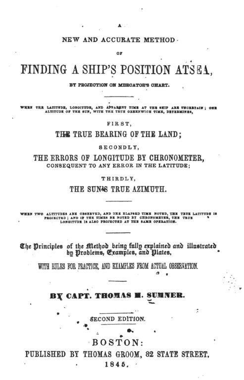 A New and Accurate Method of Finding a Ship's Position at Sea, by Projection on Mercator's Chart, Capt. Thomas H. Sumner, July 1843, Thomas Groom & Company of Boston